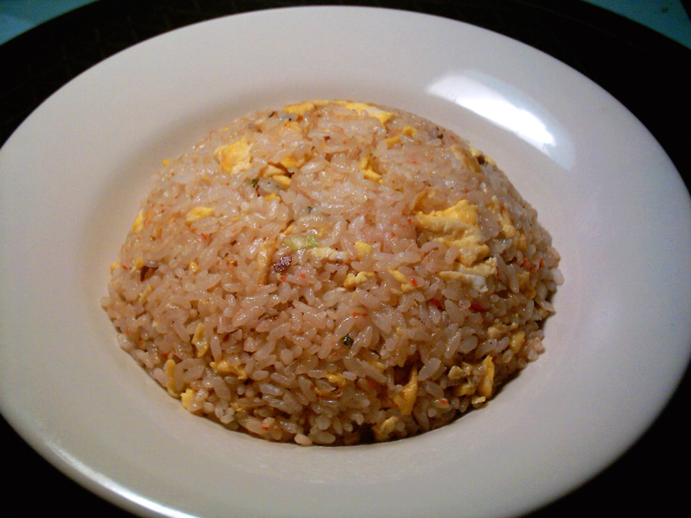 User:Kici,Original「Fried rice」